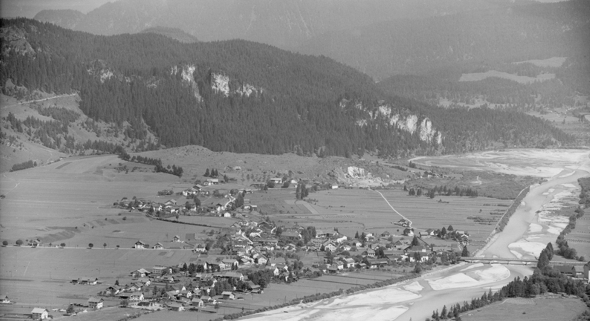 Lechaschau (Tyrol) with Lech river